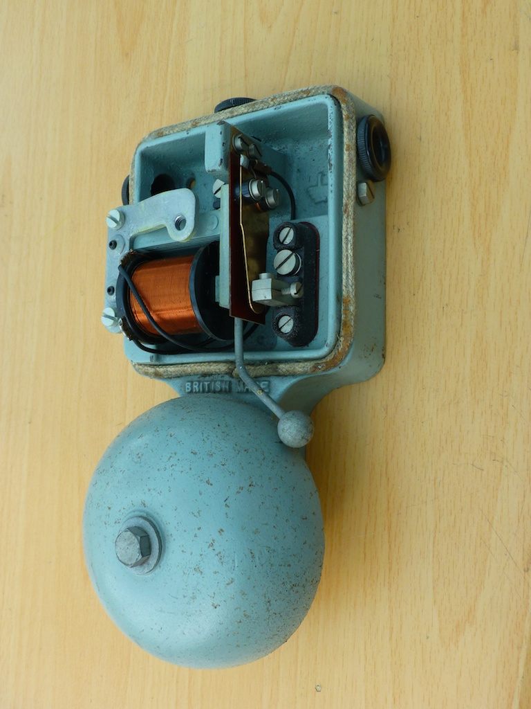 An old electric bell of the type frequently used on Railways,factories and the like in the 60s. Except this one did not get used. As you can see from these pictures.